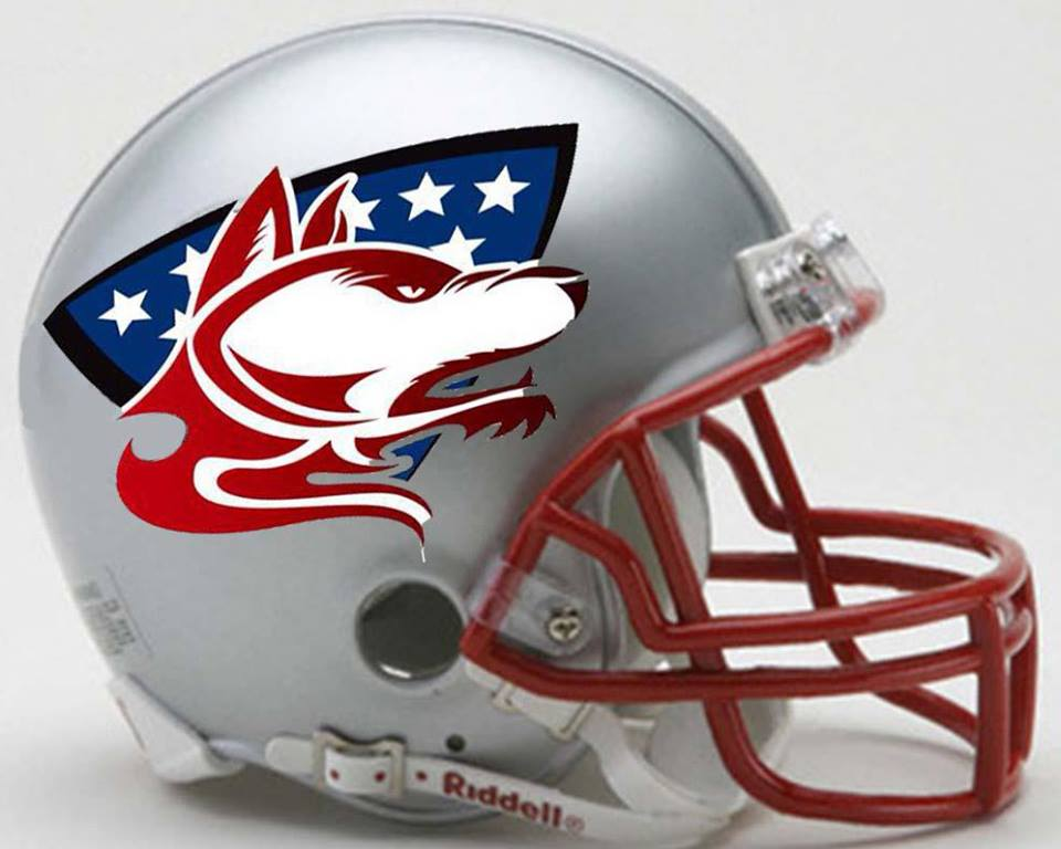 SoCal Coyotes Helmet